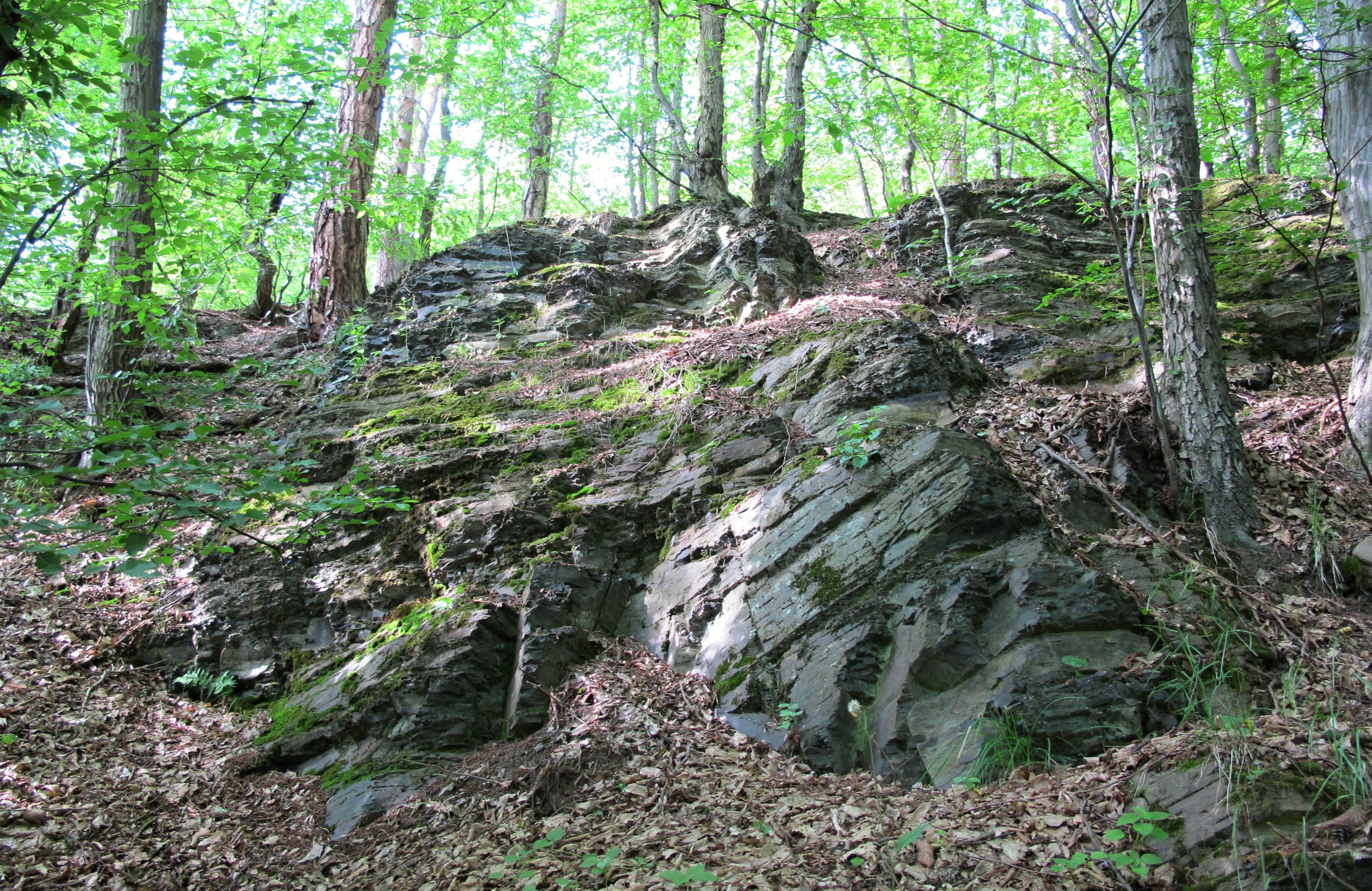 Outcrops of the Cambrian rocks, natural monument Vinice near Jince in Příbram District